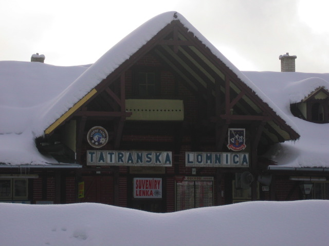 The town train station, almost buried in snow